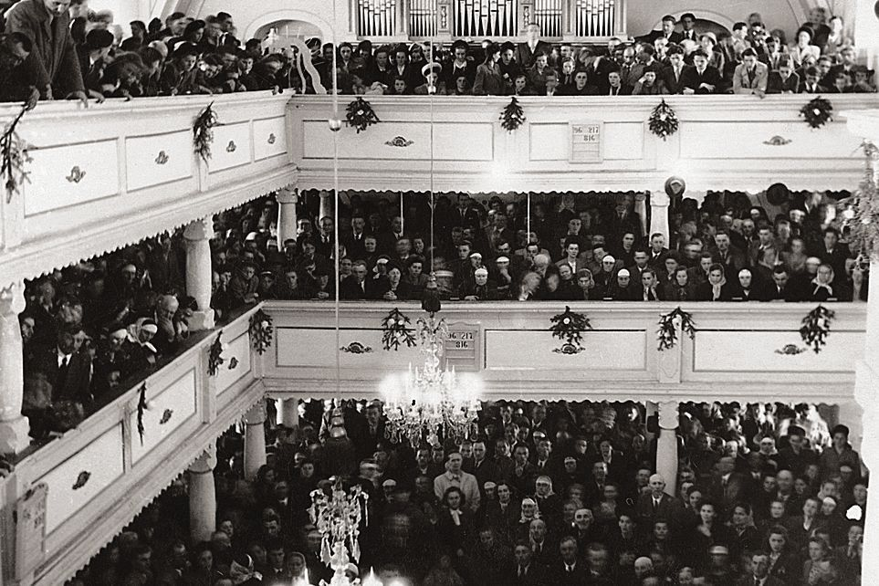 Interior of Lutheran Church in Komorní Lhotka (Frýdek-Místek District, Czech Republic)